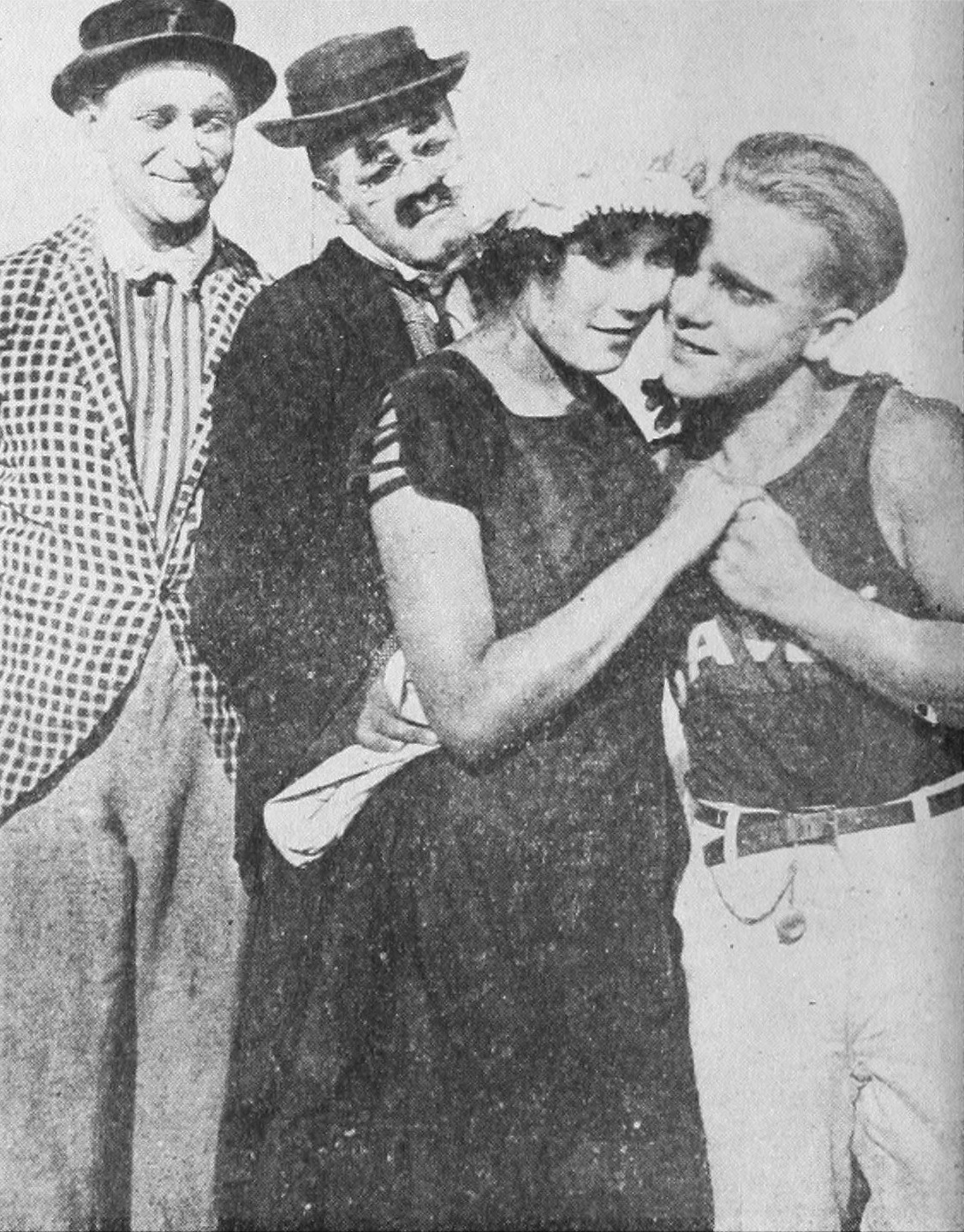 Still from Mike and Jake at the Beach, a 1913 film. Bobby Vernon, at right, is 16 years old; this is one of his first appearances on the screen. He is with Louise Fazenda. The two men at left are Max Asher and Harry McCoy.